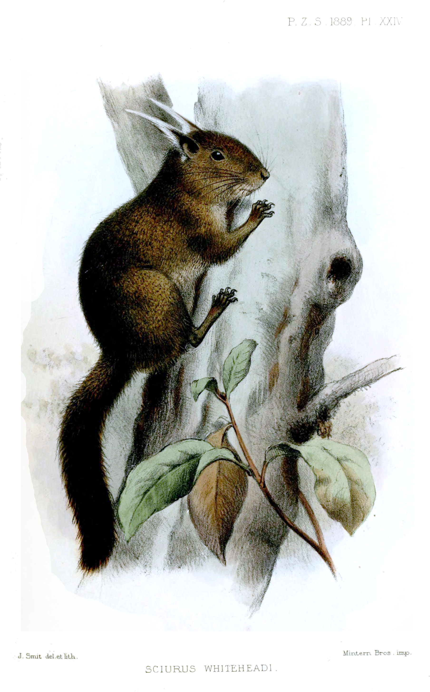 Tufted Pygmy Squirrel, adult